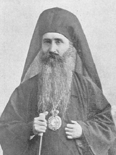 Photograph of Gherasim Safirin (or Safirim, Saffirin), Romanian Orthodox Bishop of Râmnic.